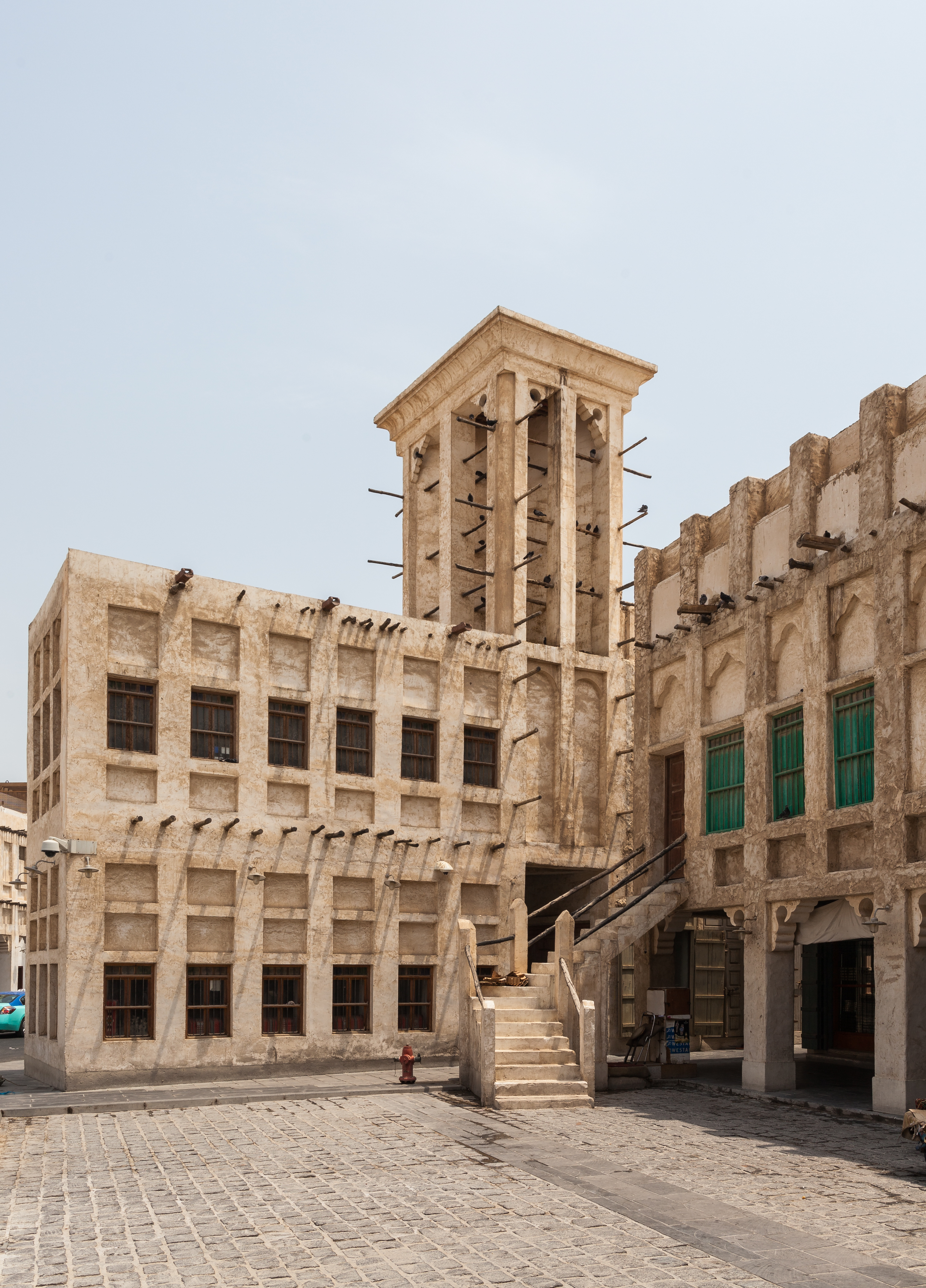 Souq Waqif, Doha, Qatar